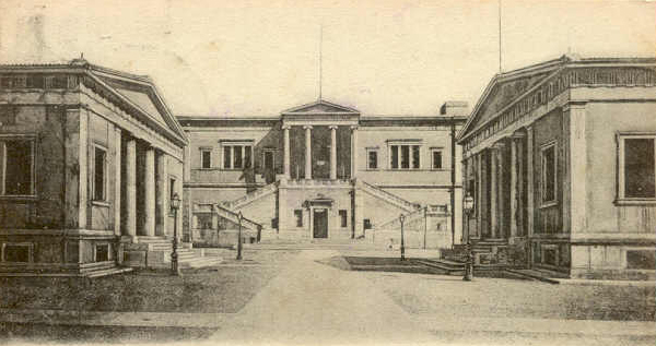 Patision Complex, of the National Technical University of Athens, in a postcard of 1900.